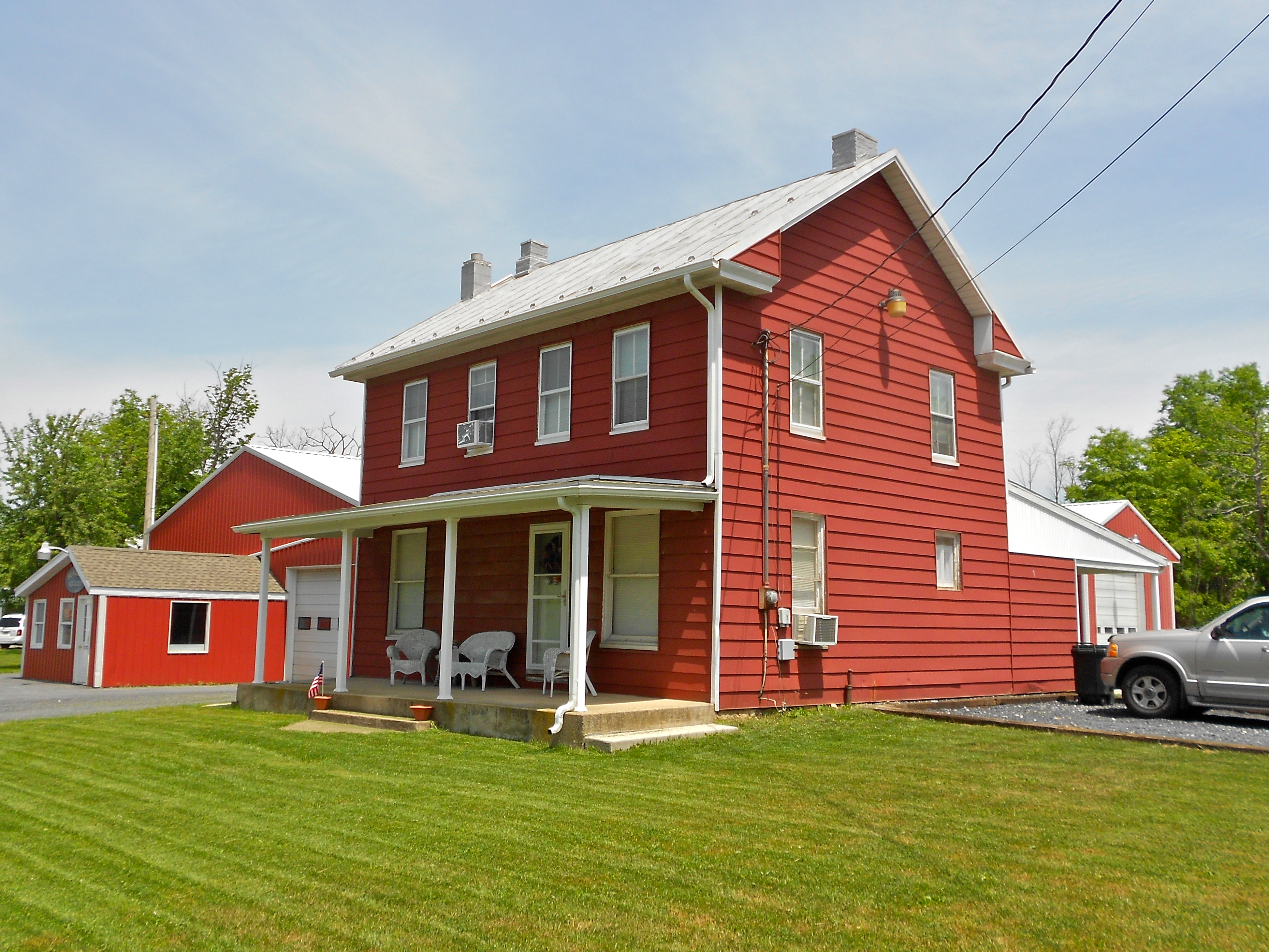 House in the village of Siddonsburg in Monaghan Township, Pennsylvania